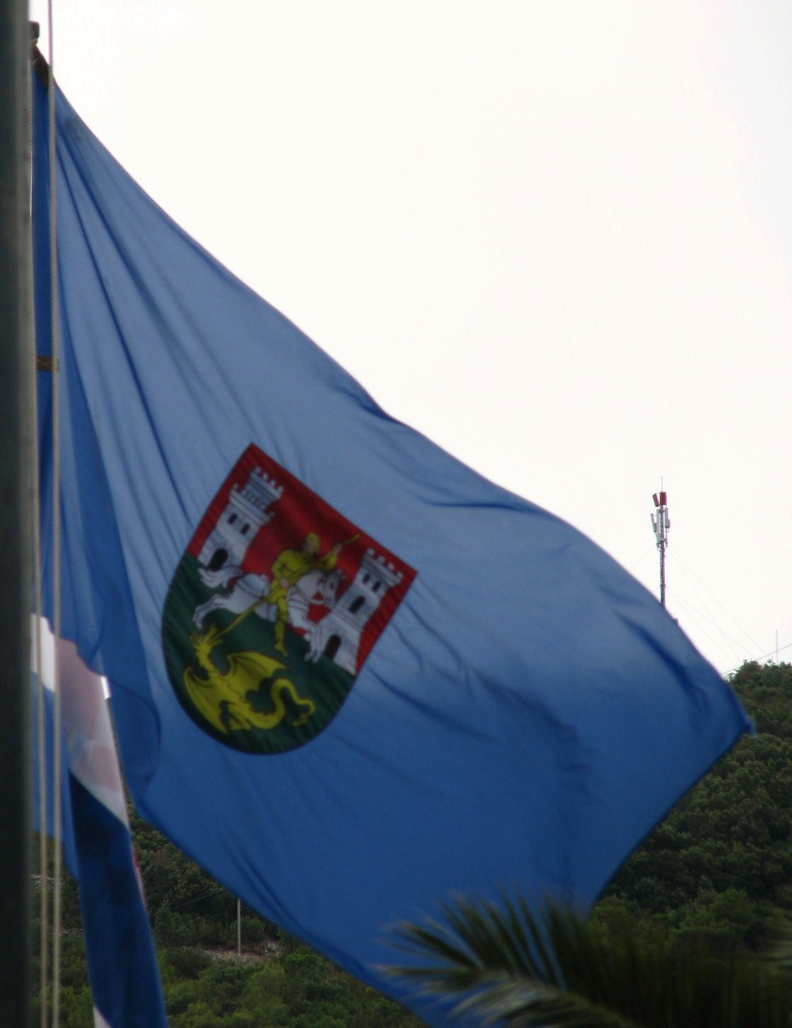 Flag of Town of Vis